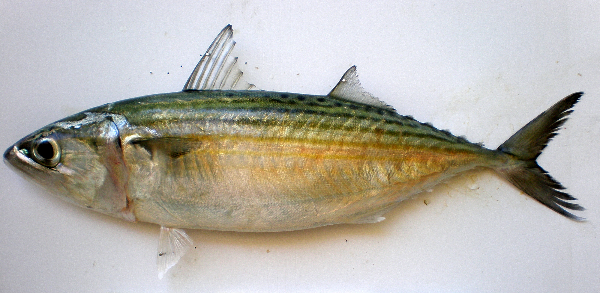 Rastrelliger kanagurta. From fishmarket, Nouméa, New Caledonia.